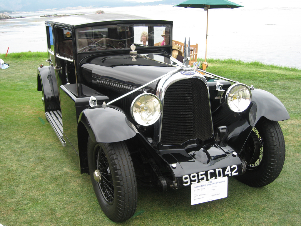 Voisin C23 Berline 'Myra' (1931) at the 2006 Pebble Beach Concours d'Elegance